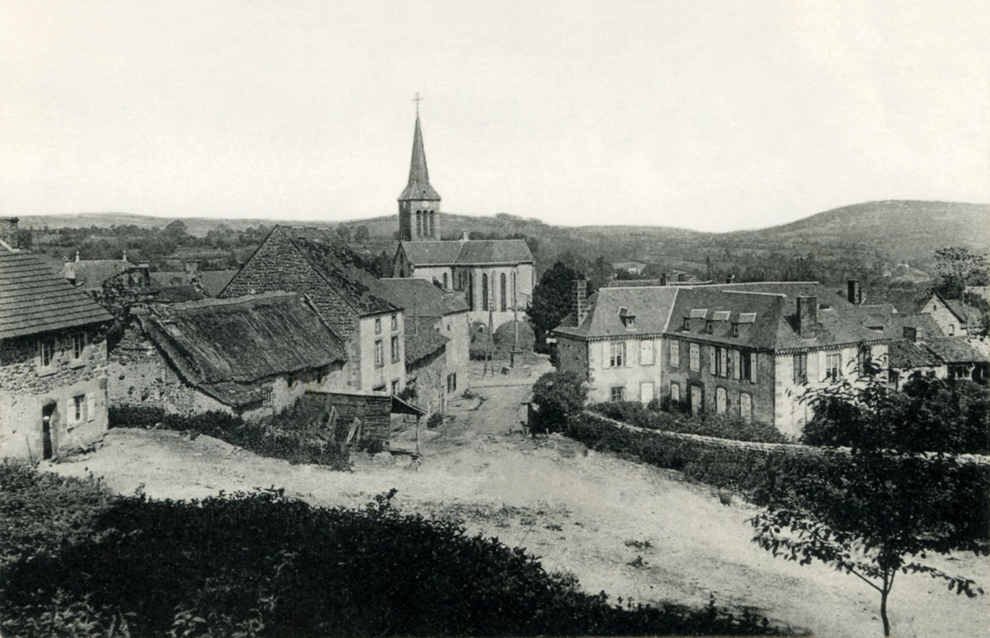 View of Manzat